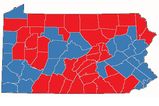 2008 PA Treasurer election results by county. Blue = McCord, Democrat; Red = Ellis, Republican.